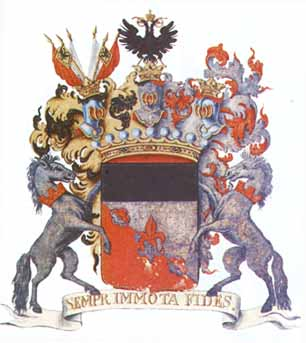 Coat of arms of the Vorontsov family. (pre 1917 design)